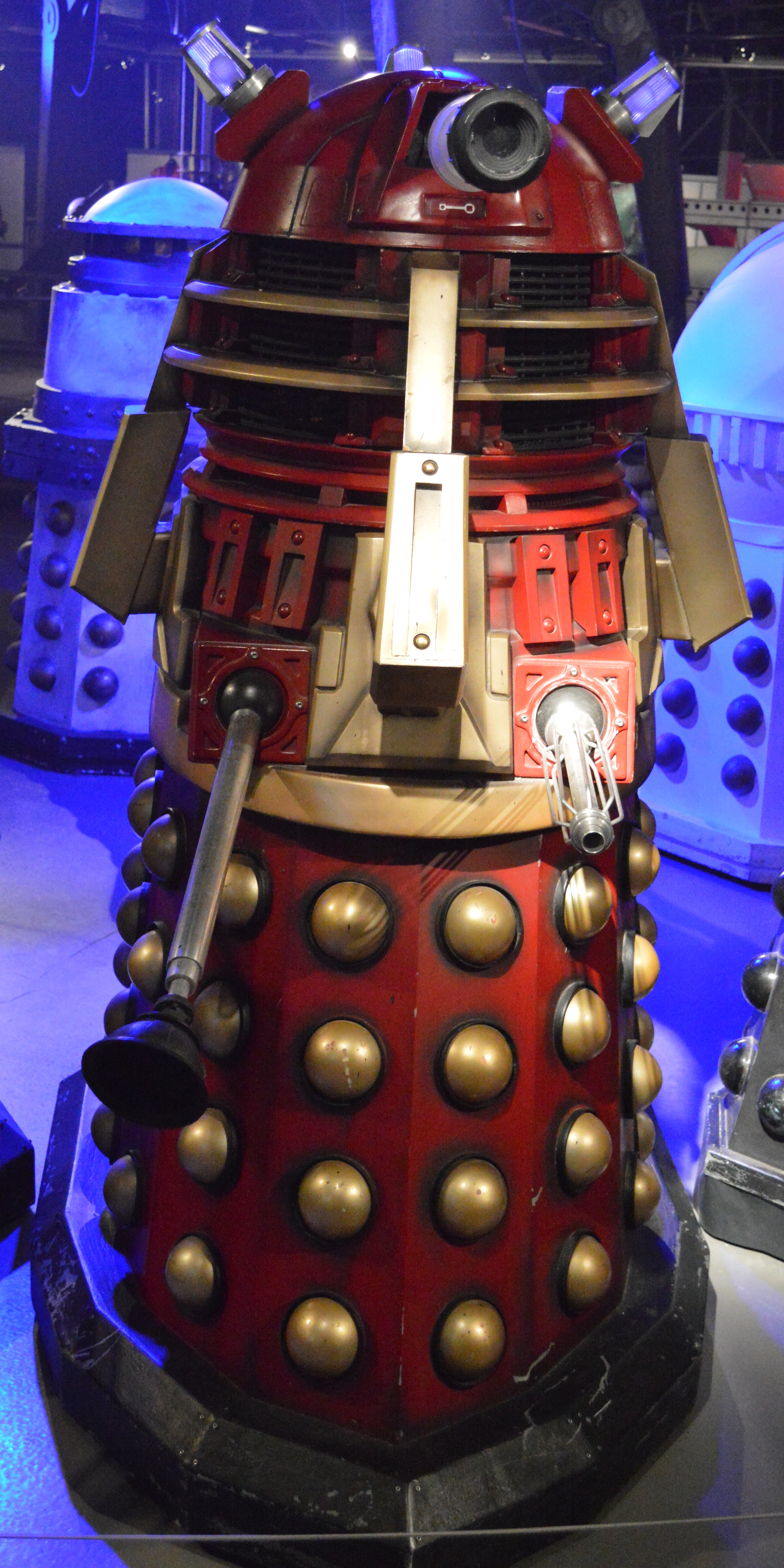 The Supreme Dalek has only been seen in one complete story, in the David Tennant story, "The Stolen Earth" and "Journey's End" Doctor Who Experience